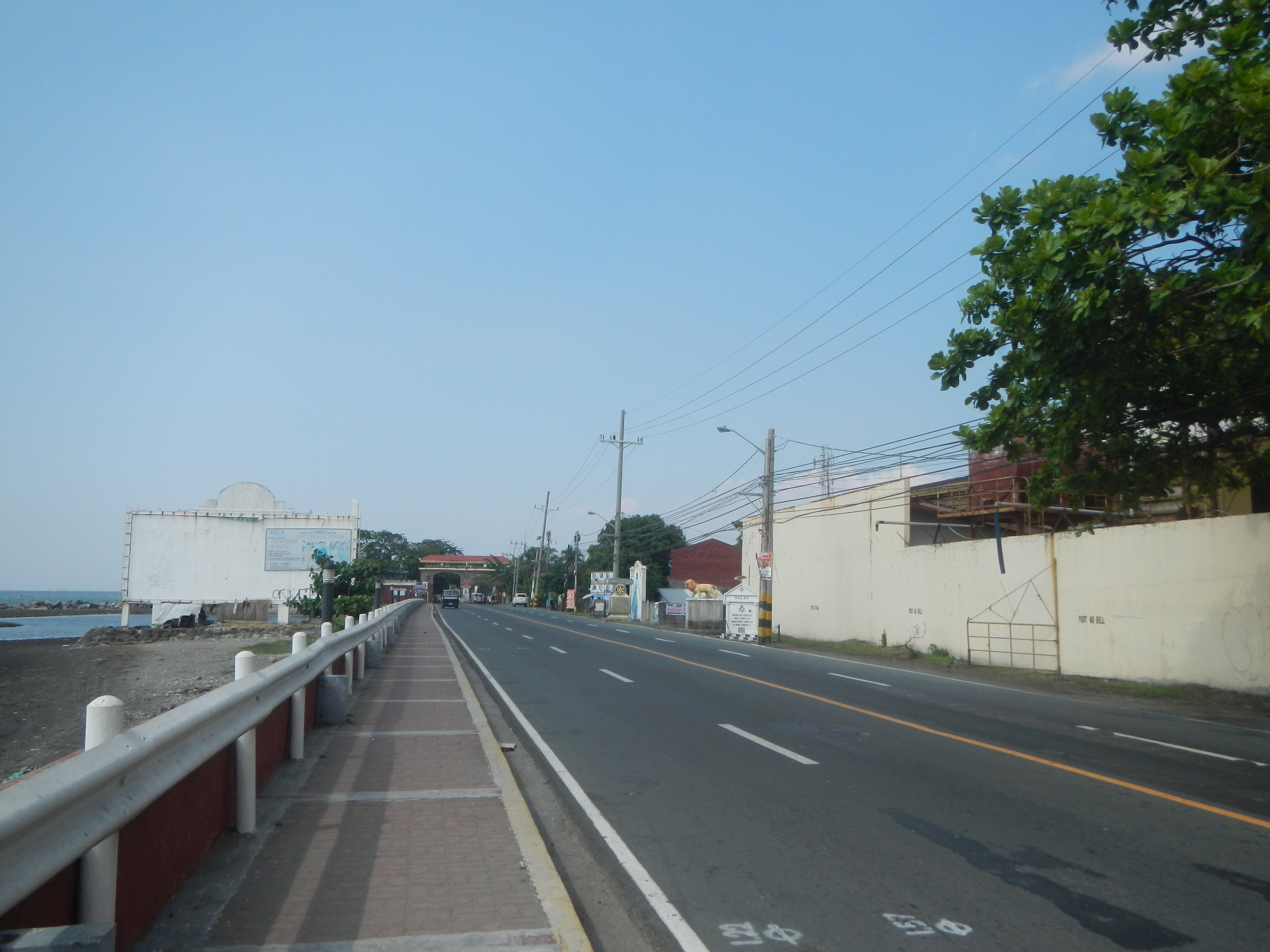 Mangroves in Cavite City Bagong Ilaw Lodge No. 6, Cavite Lodge No. 2, Bagong Buhay Lodge No. 4 & La Naval Lodge No. 7 - IGLPI Rotary Club of Cavite Bacoor Bay - Cavite City Cavite City Heroes Arch 1571-1940 Barangay 2 (Hen. C. Tirona), Cavite City Cavite City Heroes Arch 1571-1940 Mangroves in Cavite City Cavite State University Dalahican Manila-Cavite Road Cavite City along Bacoor Bay Category:Barangays of Cavite Barangays Barangay 8 (Manuel S. Rojas), Cavite City 14.4614, 120.8813 Barangay 2 (Hen. C. Tirona), Cavite City 14.4643, 120.8838 Cavite City N62 highway (Philippines) Philippine highway network (Note: Judge Florentino Floro, the owner, to repeat, Donor Florentino Floro of all these photos hereby donate gratuitously, freely and unconditionally Judge Floro all these photos to and for Wikimedia Commons, exclusively, for public use of the public domain, and again without any condition whatsoever).